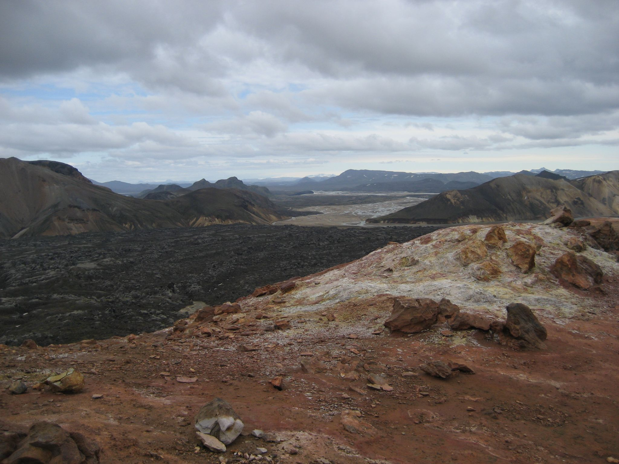 Impressive view on the Laugahraun field of 1477